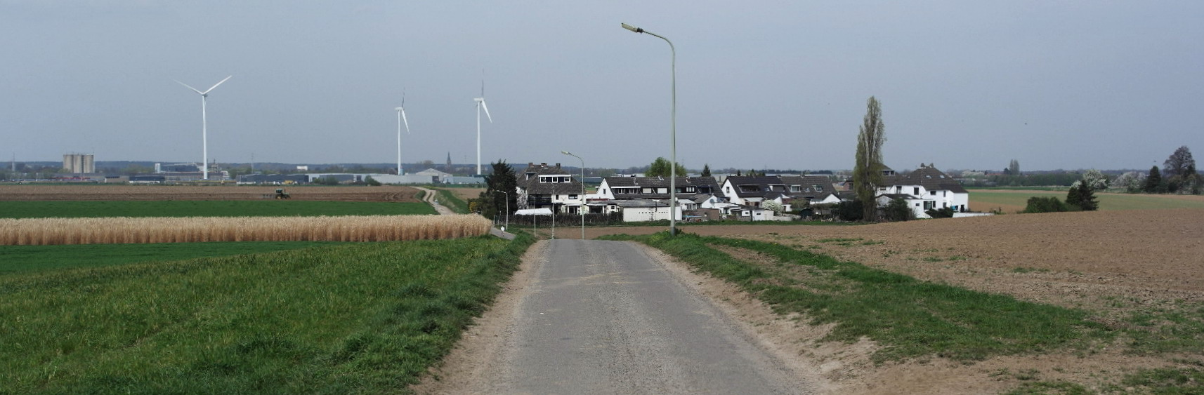 Maastricht, the Netherlands. View towards the Belgian border of Lanakerveld near Oud-Caberg in the northwestern part of Maastricht.